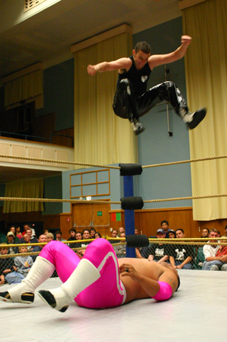 Jonnie Juice giving IBS a second rope leg drop.